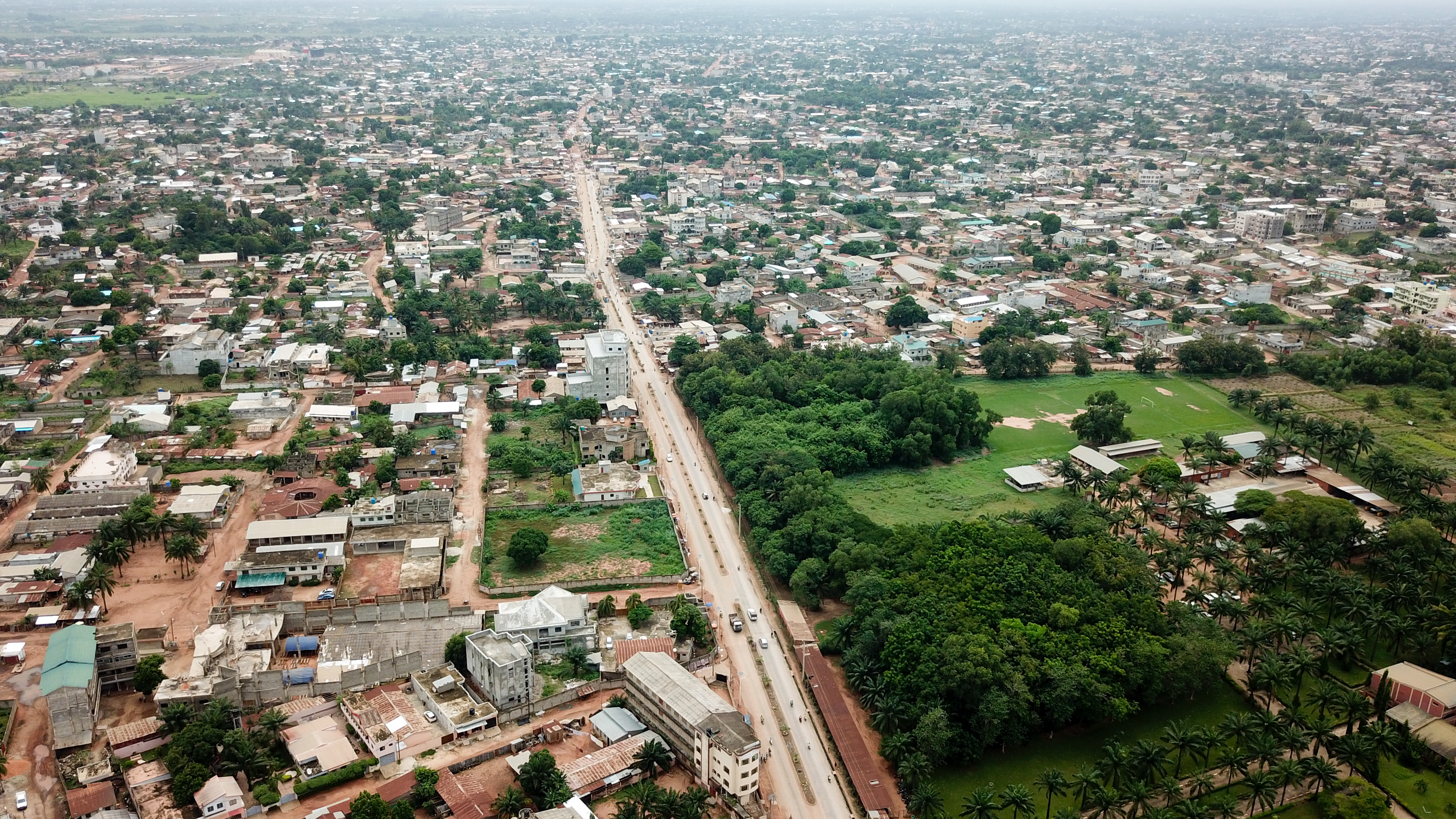 A photo of the main facade of the IITA non-profit institution that offers agricultural innovations to meet the most pressing challenges of Africa: hunger, malnutrition, poverty and degradation of natural resources.